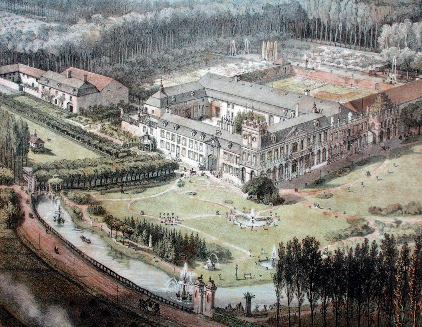 Detail of a bird view of Castle Vaeshartelt near Maastricht, Netherlands. The print was made by Th. Müller and printed by Lemercier in Paris for an album titled Album dedié a mes amis et mes enfants that Petrus Regout - owner of Vaeshartelt - had put together around 1860 for family and friends. Throughout the 1860s various versions were printed.